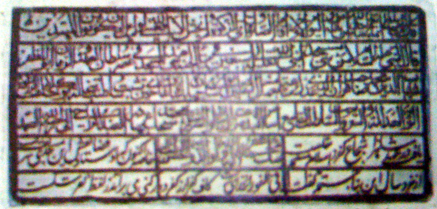 The Calligraphic stone was recovered from the destructed Churihatta Mosque.